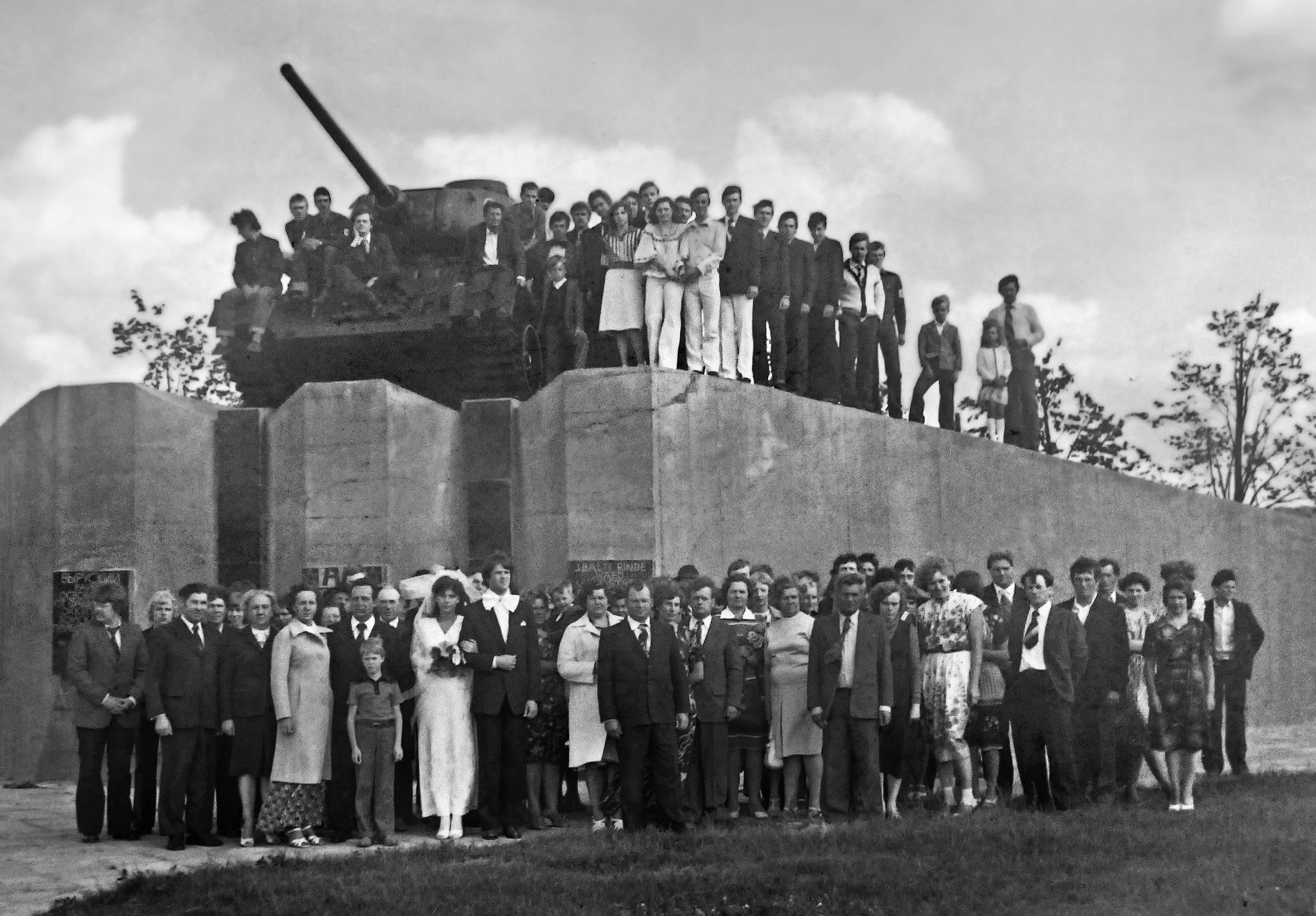 Soviet tank in the Voru in Estonia.In Soviet times, near the memorial depicting wedding photos.